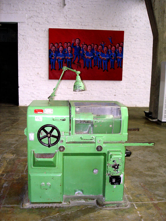 photo I took in Beijing in Dec 2005 photo I took in Beijing in Dec 2005